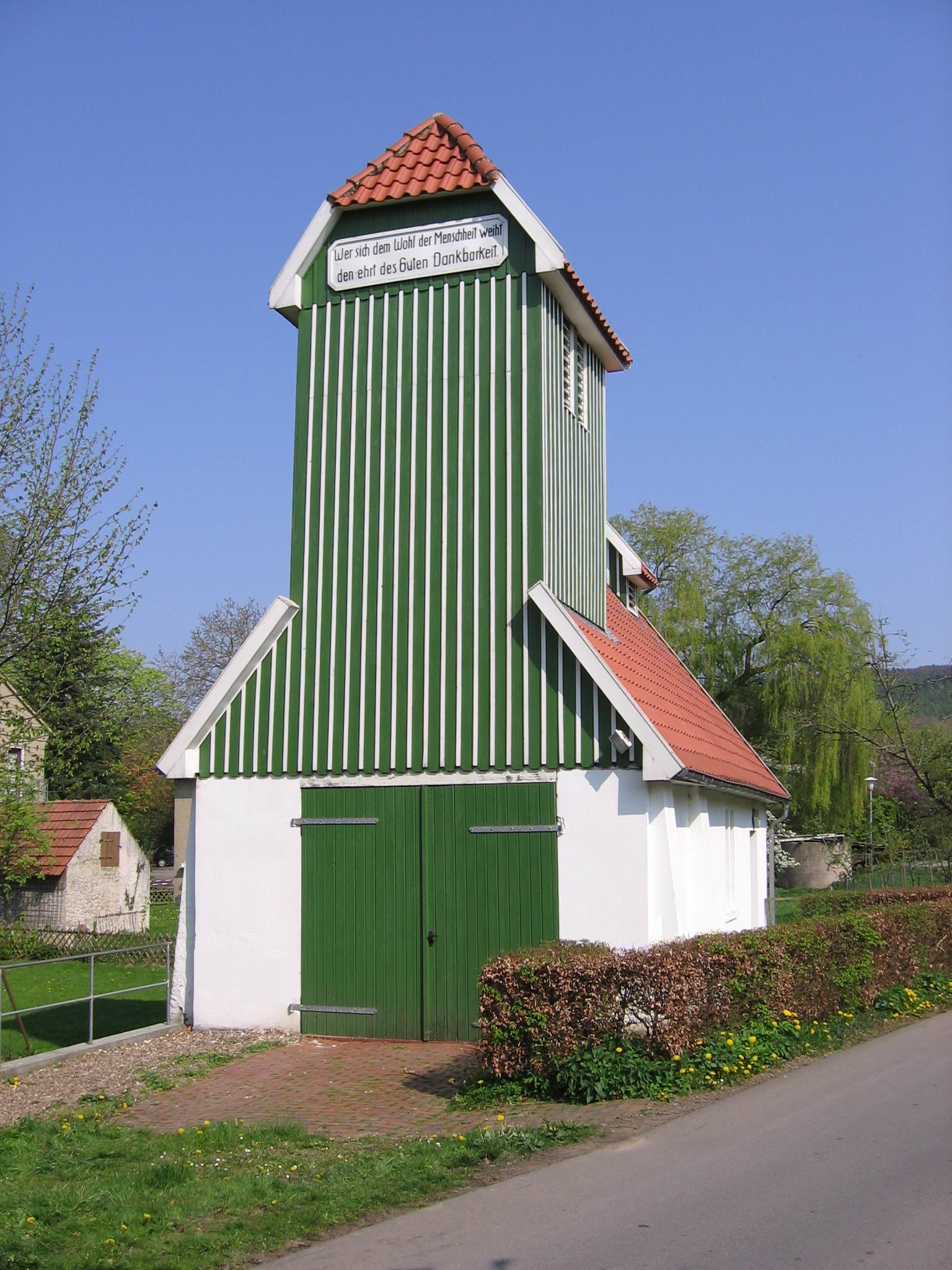 Old firestation with wooden hose tower in Hüllhorst, District of Minden-Lübbecke, North Rhine-Westphalia, Germany.